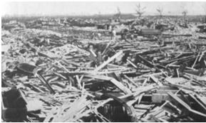 St. John's College at Loyola Park reduced to rubble by 1931 hurricane